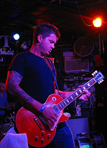 Ingram Hill playing The Saint, Asbury Park, NJ, June 26, 2011.